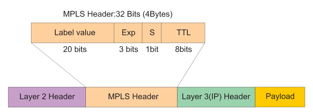 MPLS Header